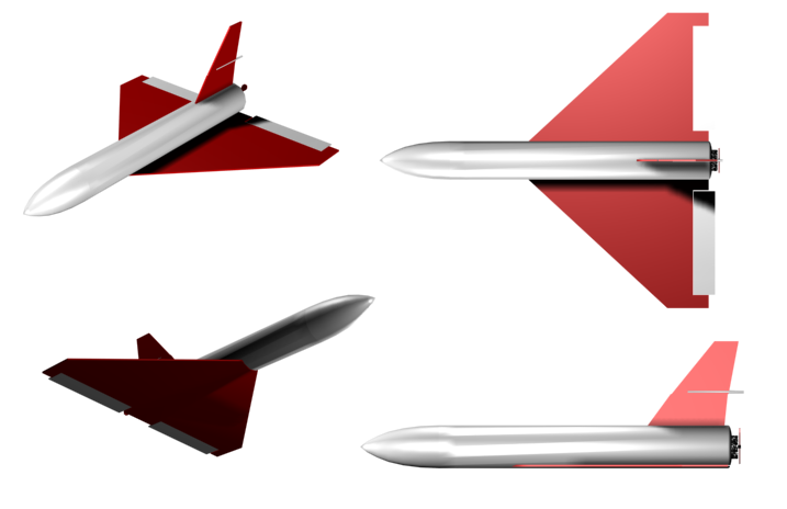 Ghods Saeghe (Thunderbolt) is a simple Iranian target drone.